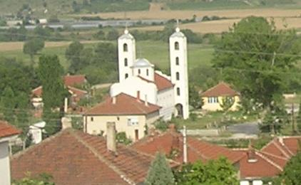 St. Clement of Ohrid Church in Čaška, Macedonia